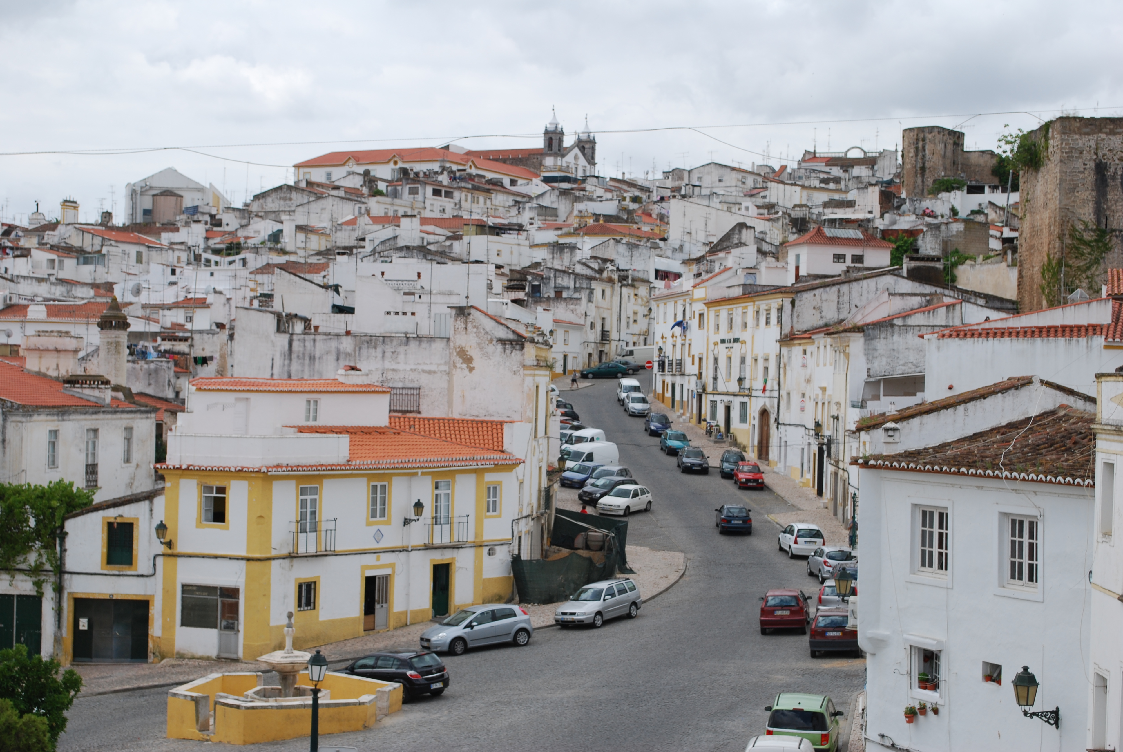 This file was uploaded for Wiki Loves Monuments in Portugal with the unique identifier 156824.